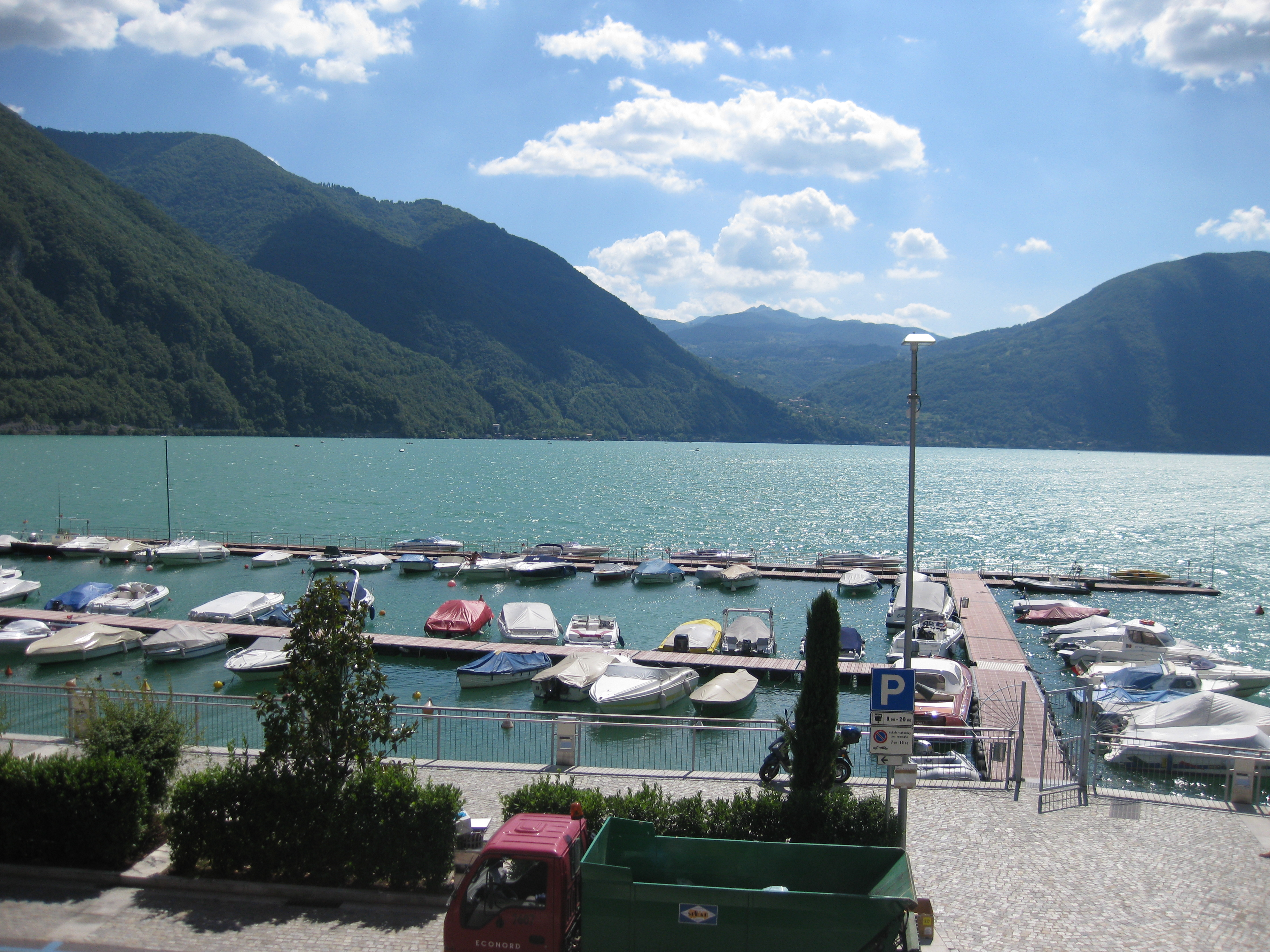 Lake of Lugano at Porlezza (Lombardy, Italy).